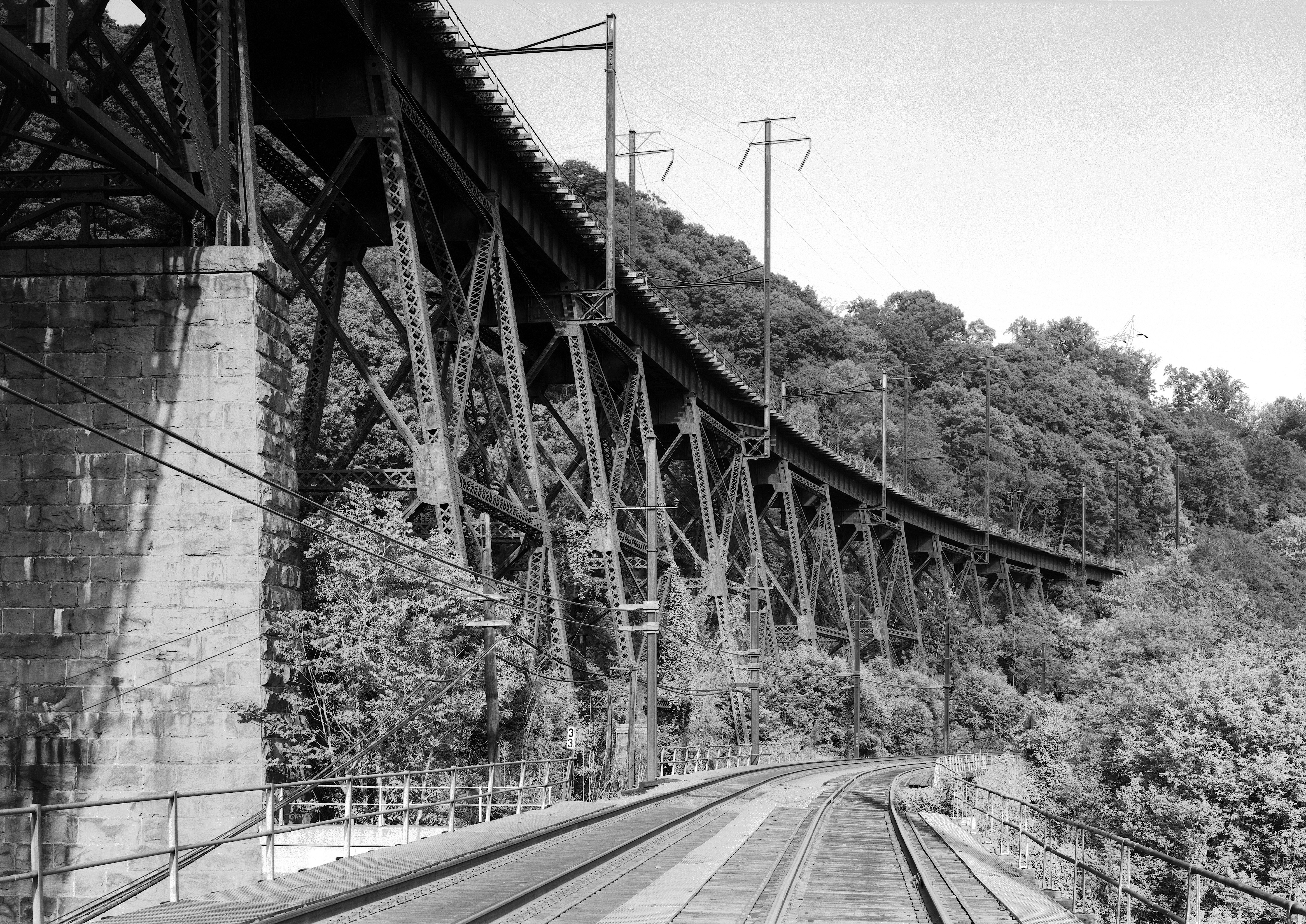 Perspective view of south approach trestle, looking SE, with high stone pier for Conestoga River span at left. - Pennsylvania Railroad, Safe Harbor Bridge, Spanning mouth of Conestoga River, Safe Harbor, Lancaster County, PA